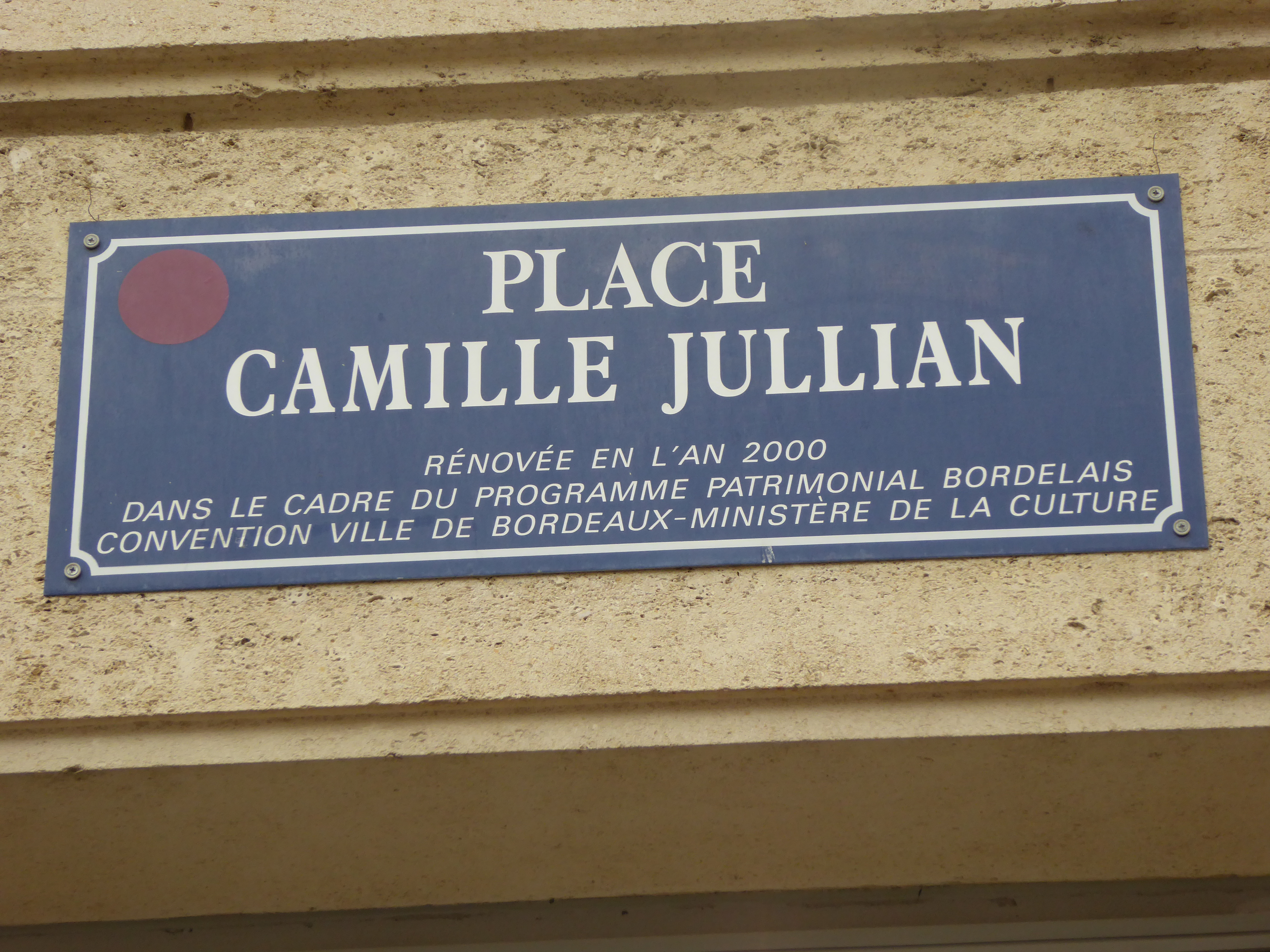 Sign on Place Camille Jullian, Bordeaux, France, July 2014